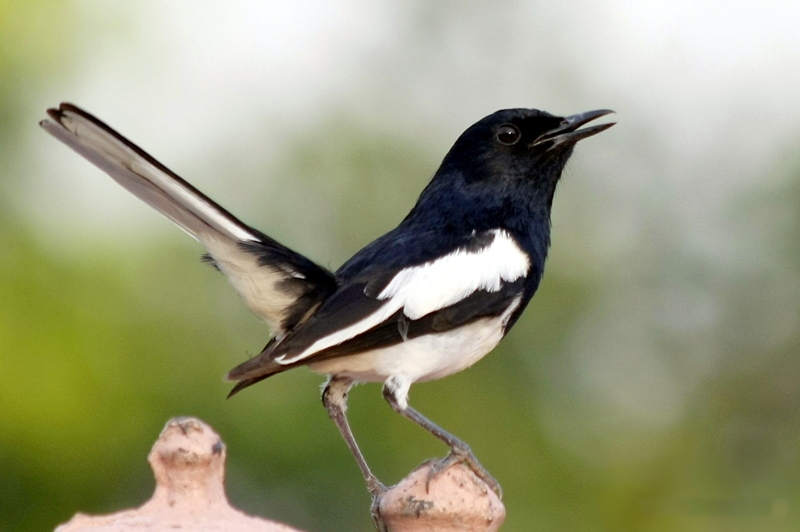 Photograph of Magpie Robin Copsychus saularis taken on my roof in New Delhi.